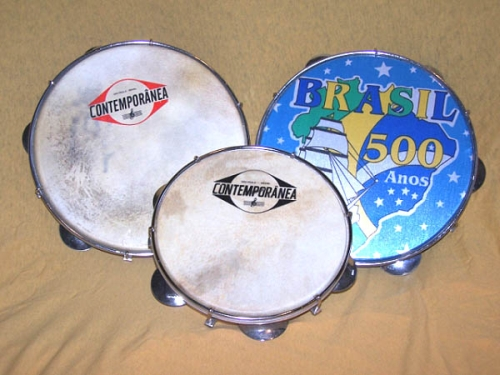 The pandeiro (pronounced: pan-DEH-ruh), similar to the Tambourine, is a small, hand-held Brazilian percussion instrument. It typically consists of a round wooden frame, with six pairs of metal discs fit along the sides, and an animal skin or nylon head.